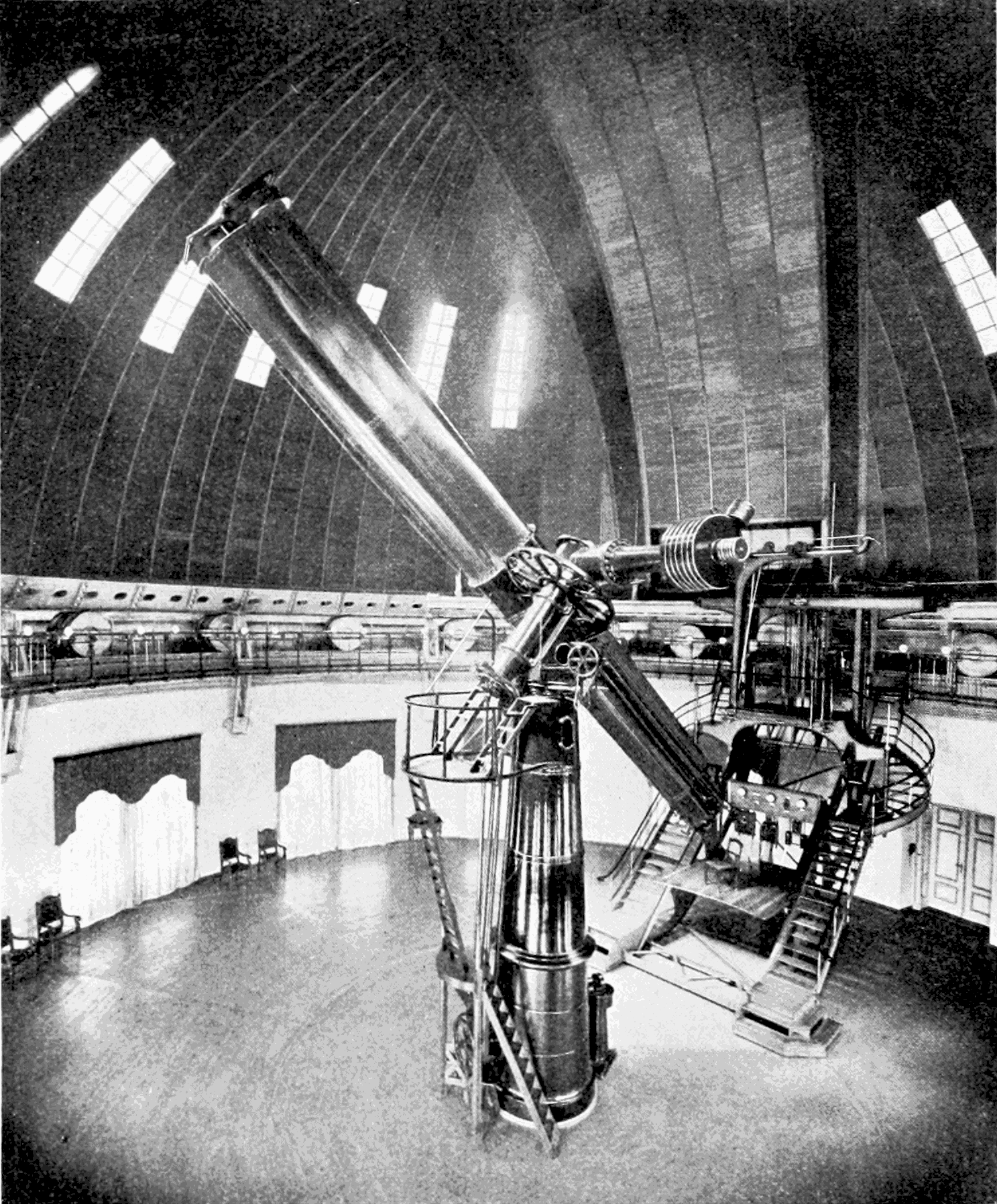 Photographic refracting telescope at Potsdam